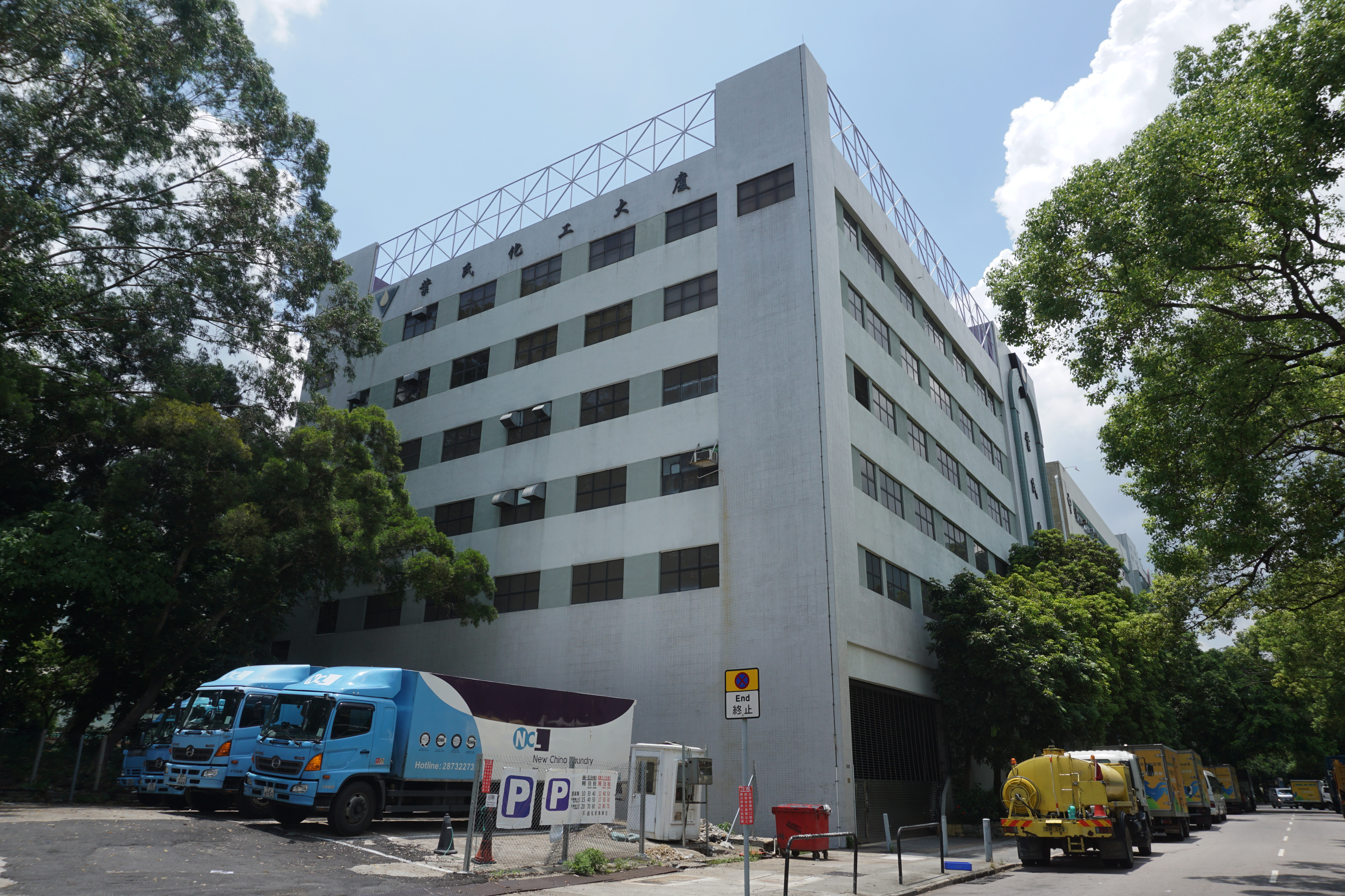 Yip's Chemical Building in Fanling, Hong Kong.